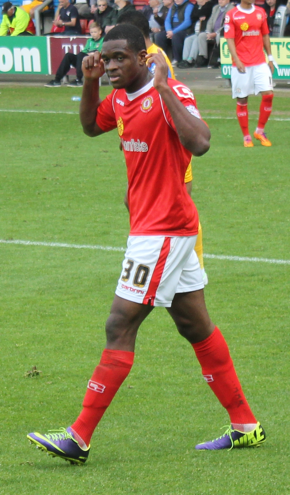 Uche Ikpeazu playing for Crewe Alexandra against Preston North End at Gresty Road, Crewe on 3 May 2014